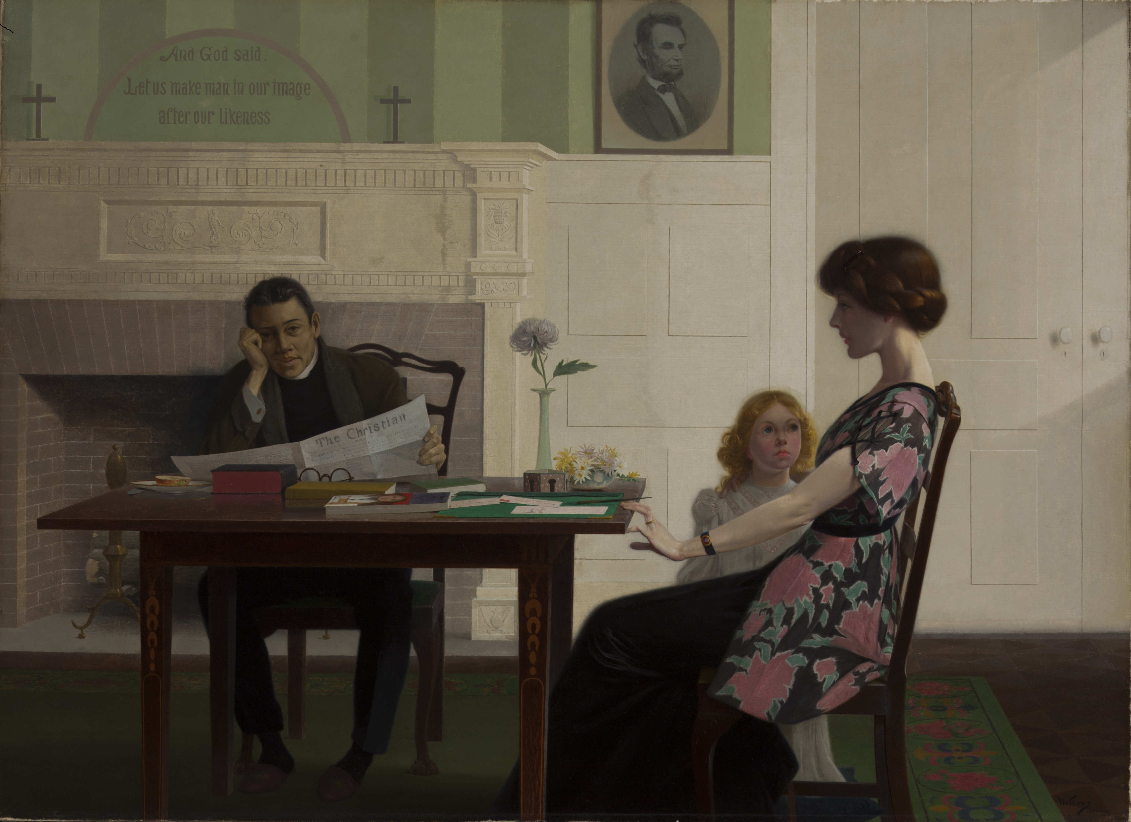 Harry Willson Watrous, "The Drop Sinister, What Shall We Do With It?", c. 1913, Portland Museum of Art